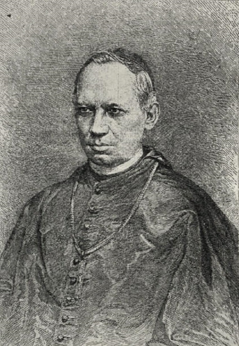 János Zalka